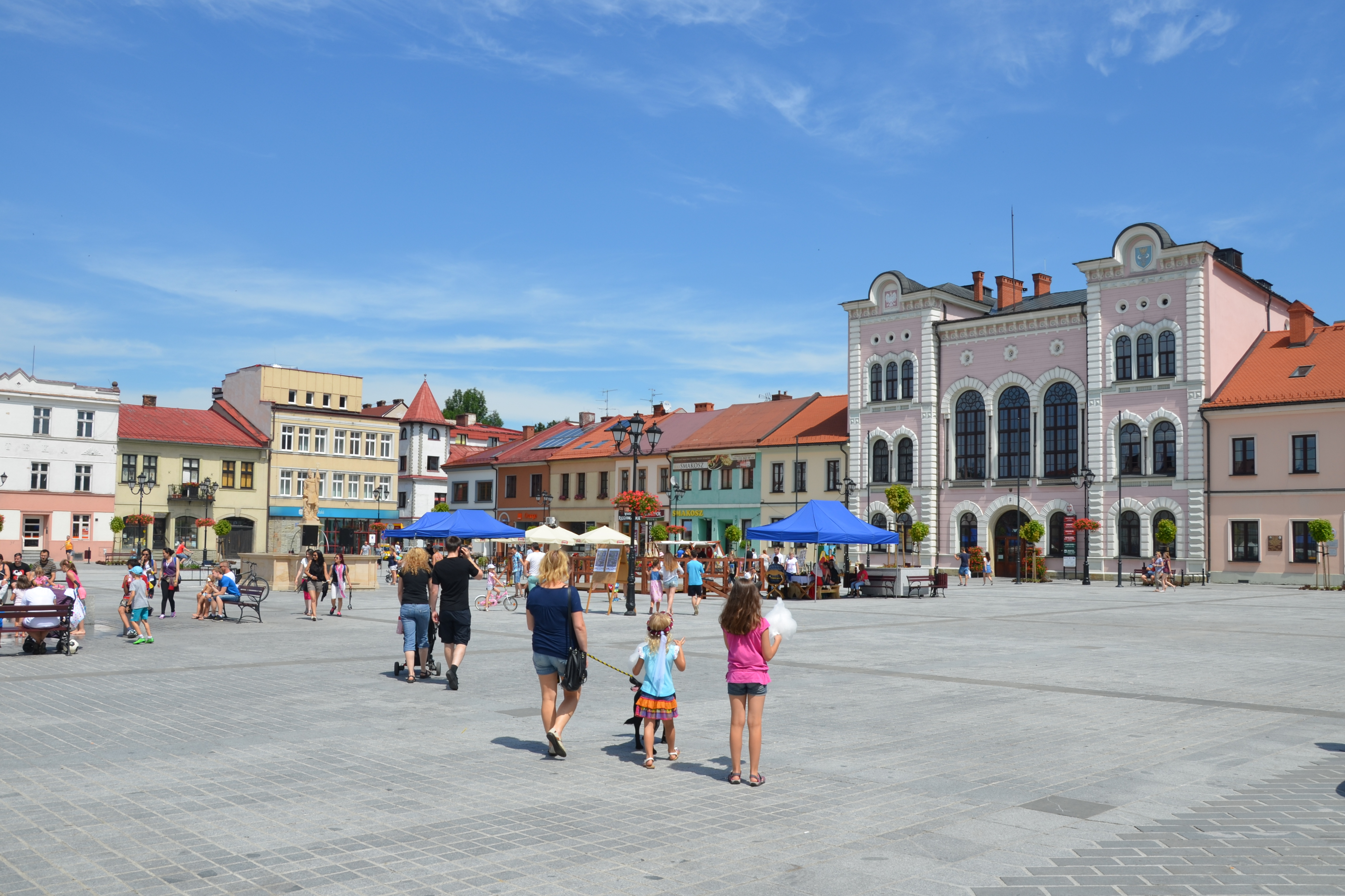 Die Häuser der Kaufleute auf dem Ringplatz von Saybusch